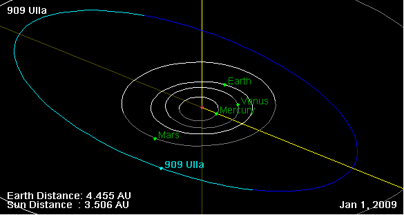 909 Ulla orbit, and his position on 01 Jan 2009 (NASA Orbit Viewer applet)